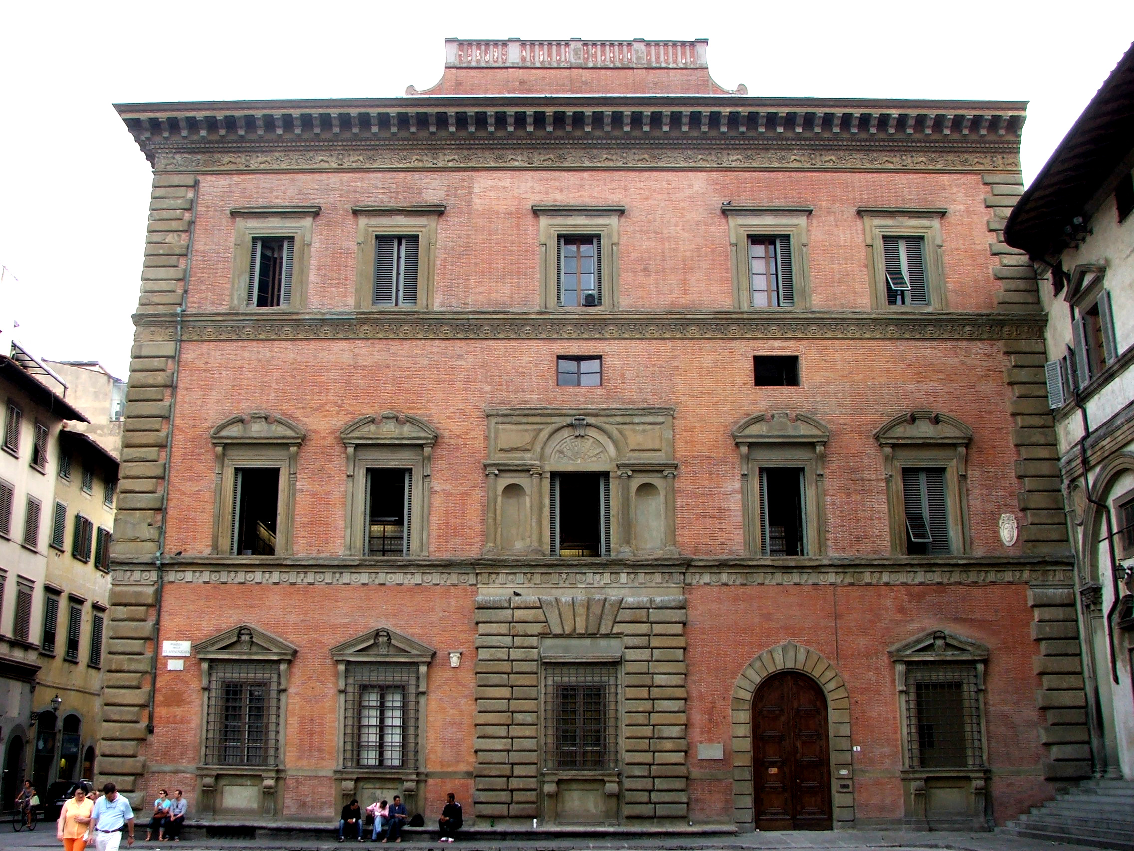 facade of Palazzo Budini Gattai, view from Piazza Santissima Annunziata